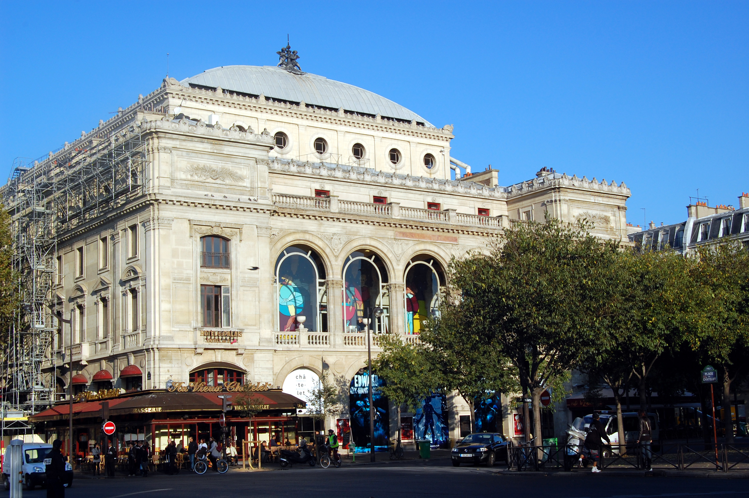 Chatelet theater, Paris, France - sun dial in courtyard.